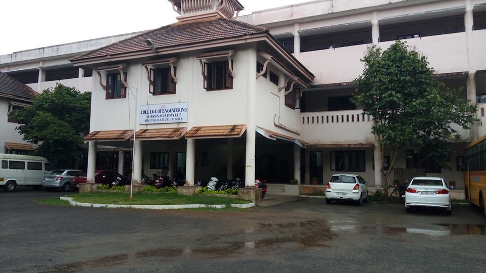 Cek New look with second floor